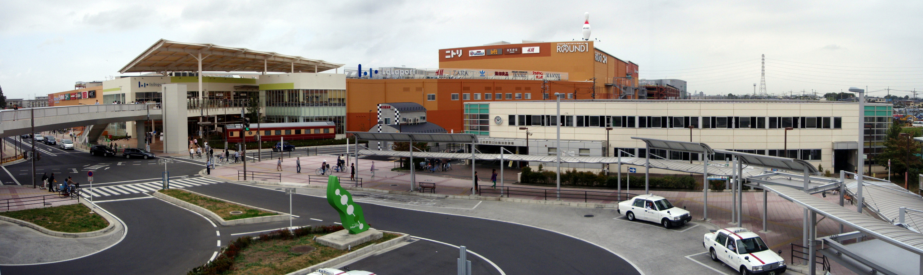 lalaport shin misato